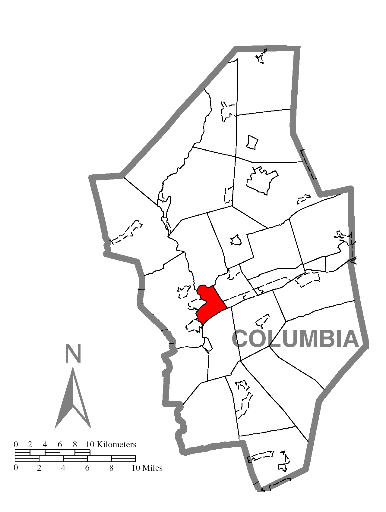 A map of Columbia County showing Bloomsburg, Pennsylvania (alternate) highlighted on the map.